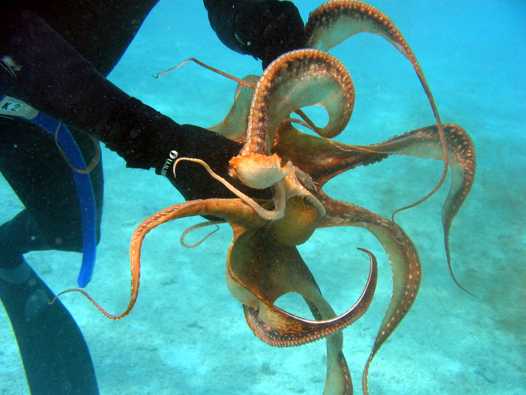 An ornate octopus ornatus Image ID: reef0710, NOAA's Coral Kingdom Collection Location: Northwest Hawaiian Islands